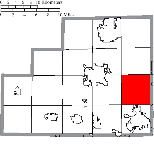 Map of the municipal and township boundaries of Medina County, Ohio, United States, as of the 2000 census, with the location of Sharon Township highlighted. Township borders are shown only in unincorporated areas in order to differentiate incorporated and unincorporated areas more clearly.